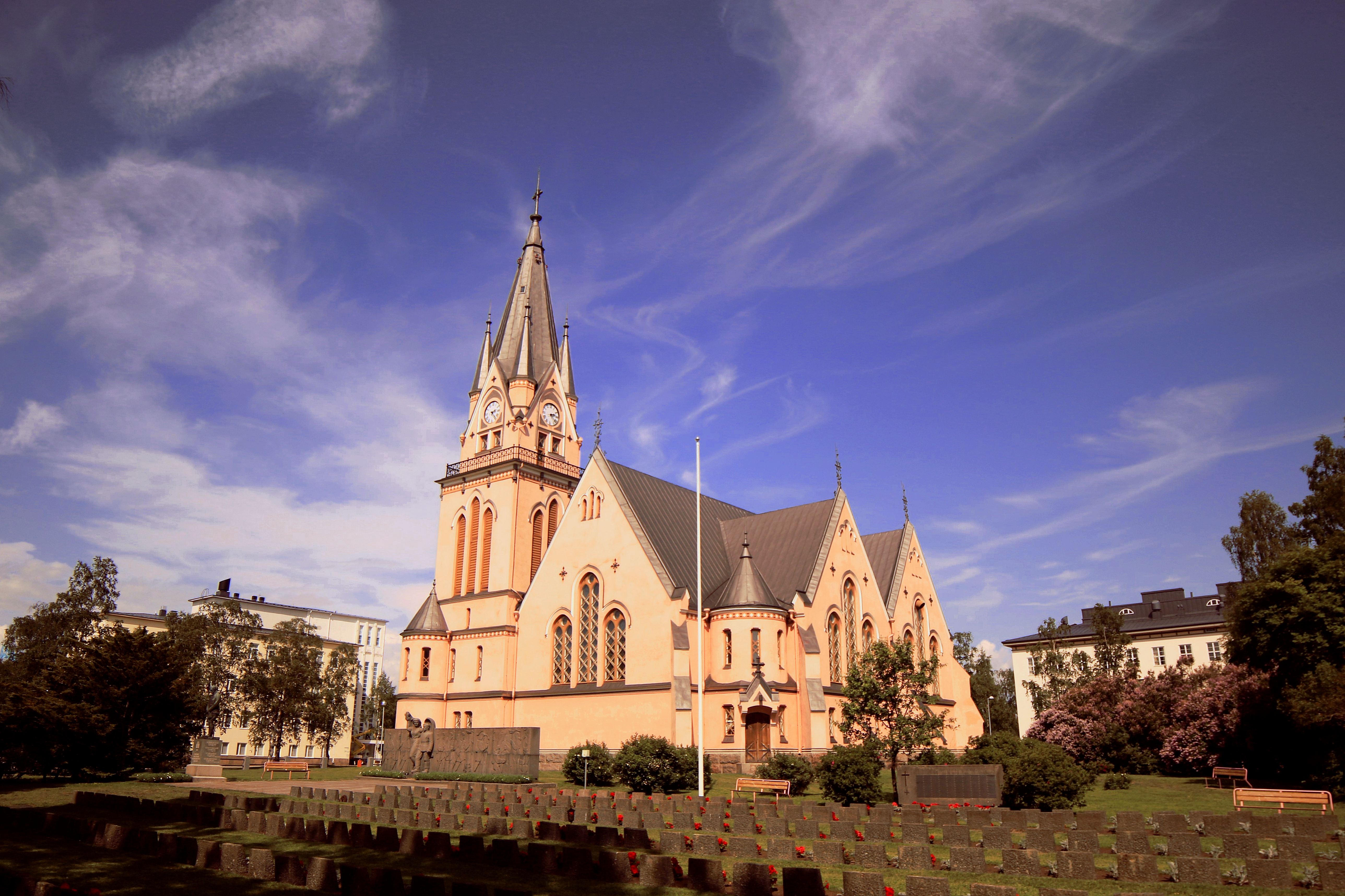 Kemi church